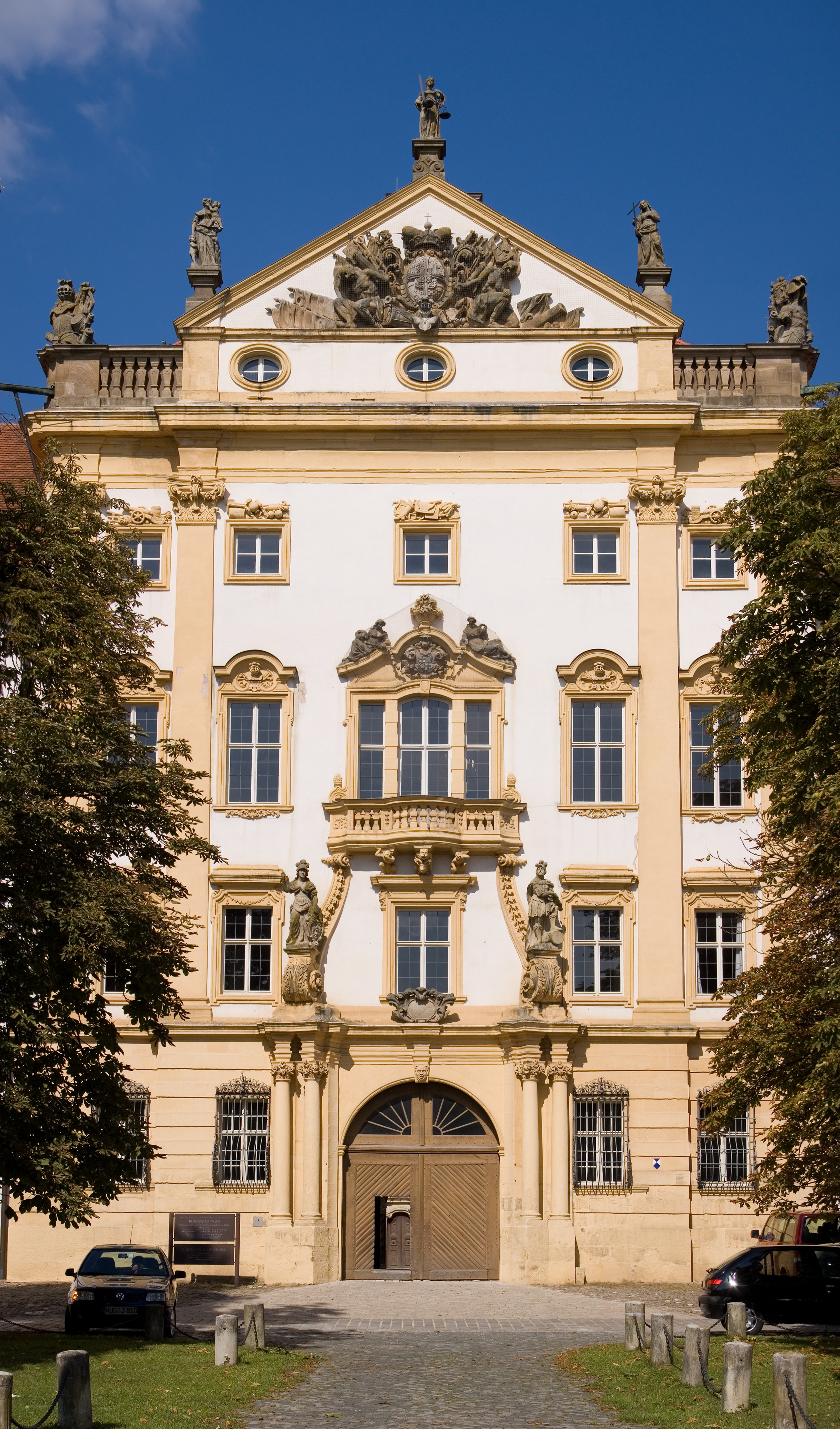 Entrance to castle Ellingen, Bavaria, Germany Camera: Nikon D50 Lens: AF-S DX Zoom-Nikkor 18-55 mm 1:3,5-5,6G ED